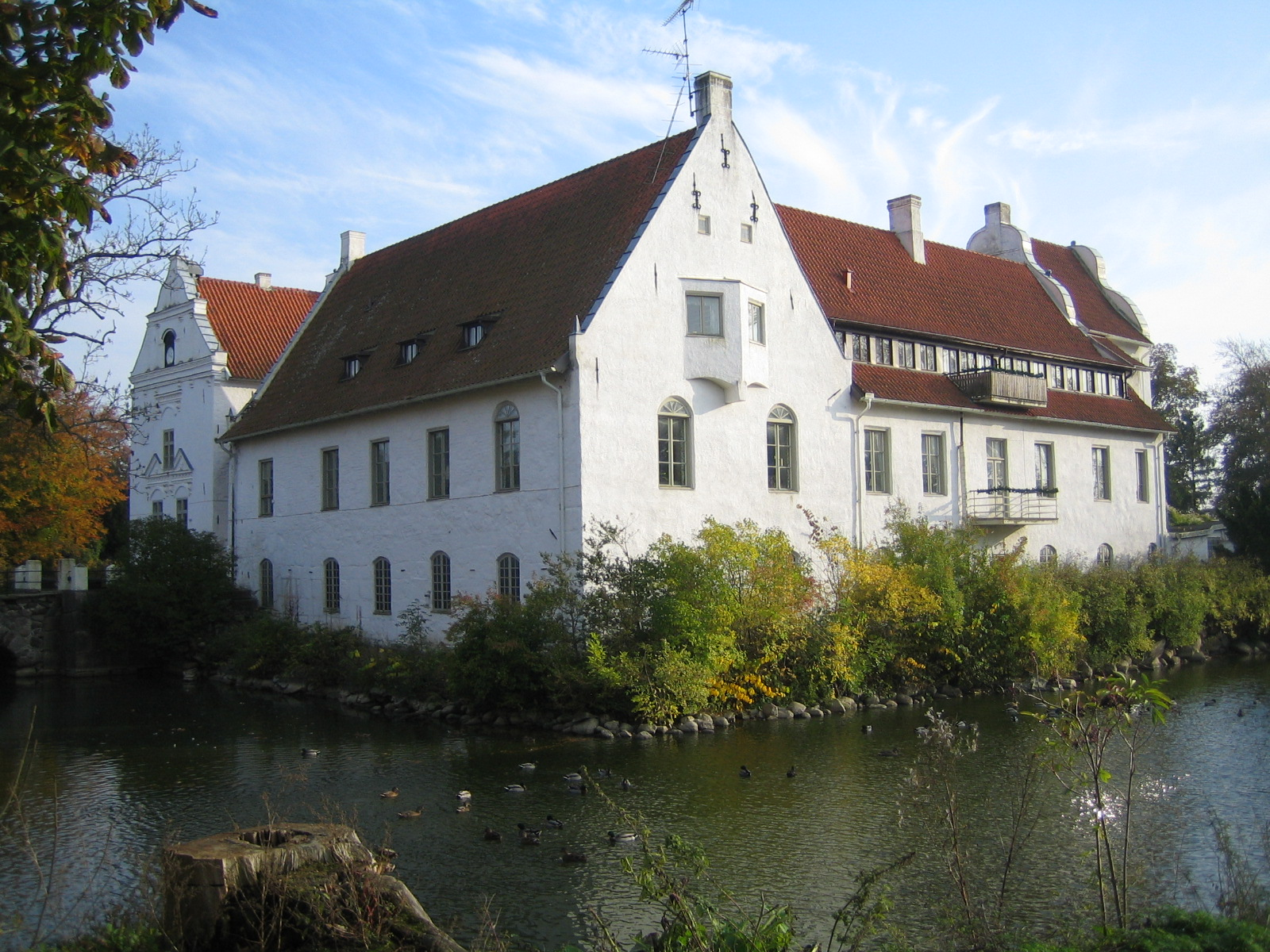 Picture of Dybäck castle, Scania.